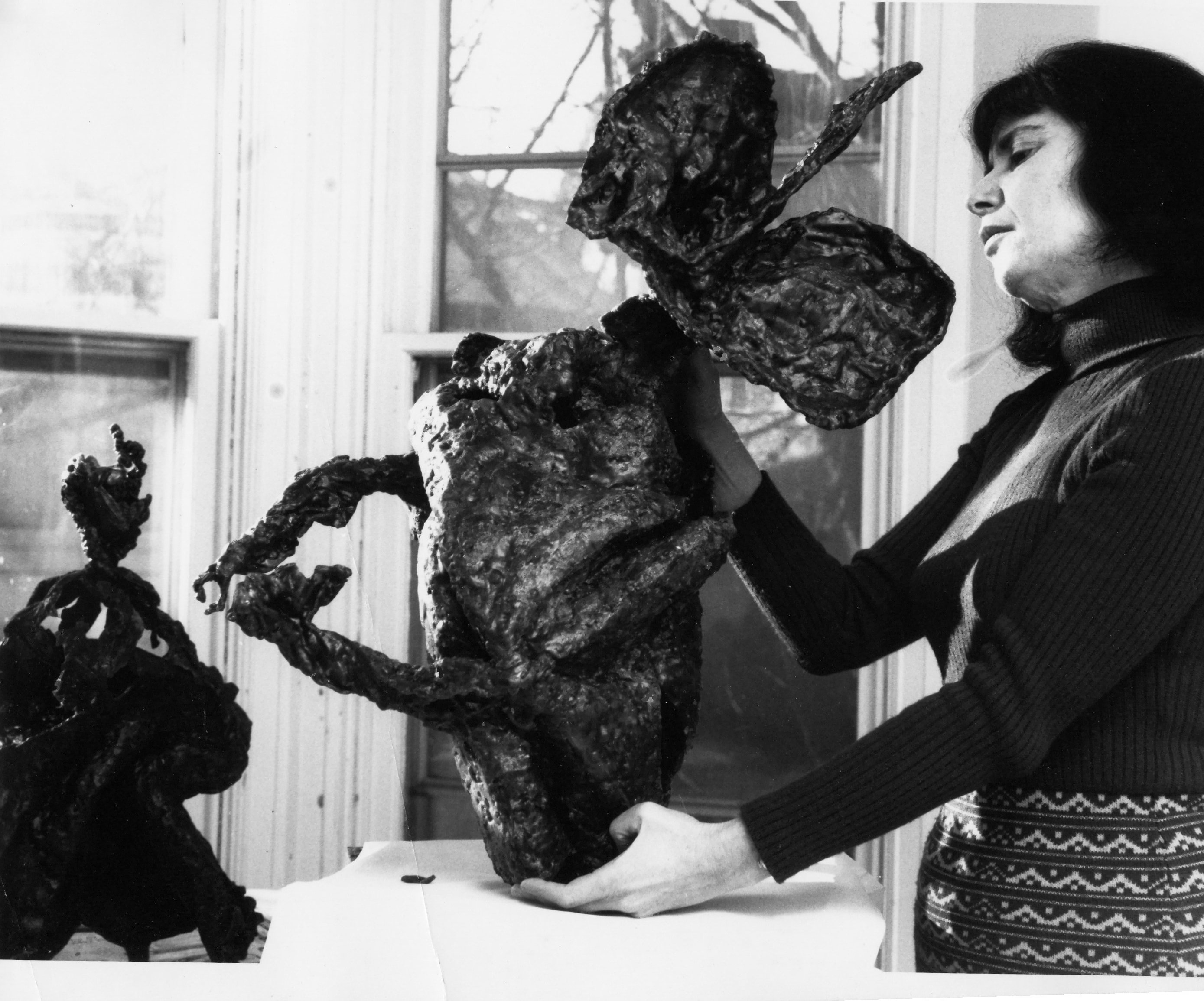 In her studio with wax Mythological Figure II, 1973